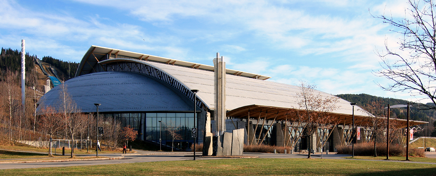 Håkons hall, Lillehammer. Built for the ice hockey competitions at the 1994 Winter Olympics. Site of Norway's Olympic Museum.